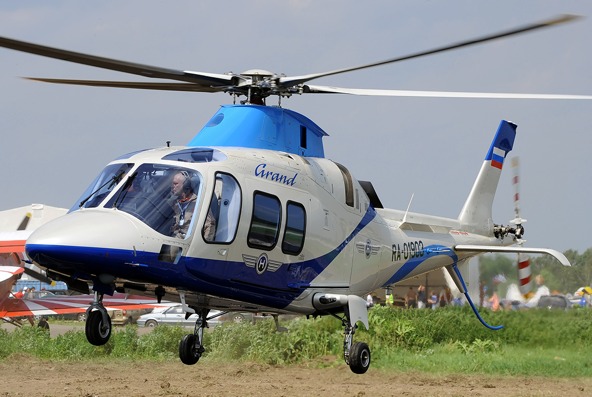 Agusta A-109S Grand RA-01903